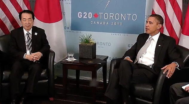 Naoto Kan, Prime Minister, and Barack Obama, President, spoke to the press after meeting at the 2010 G-20 Toronto summit in Toronto City, Ontario Province on June 27, 2010.